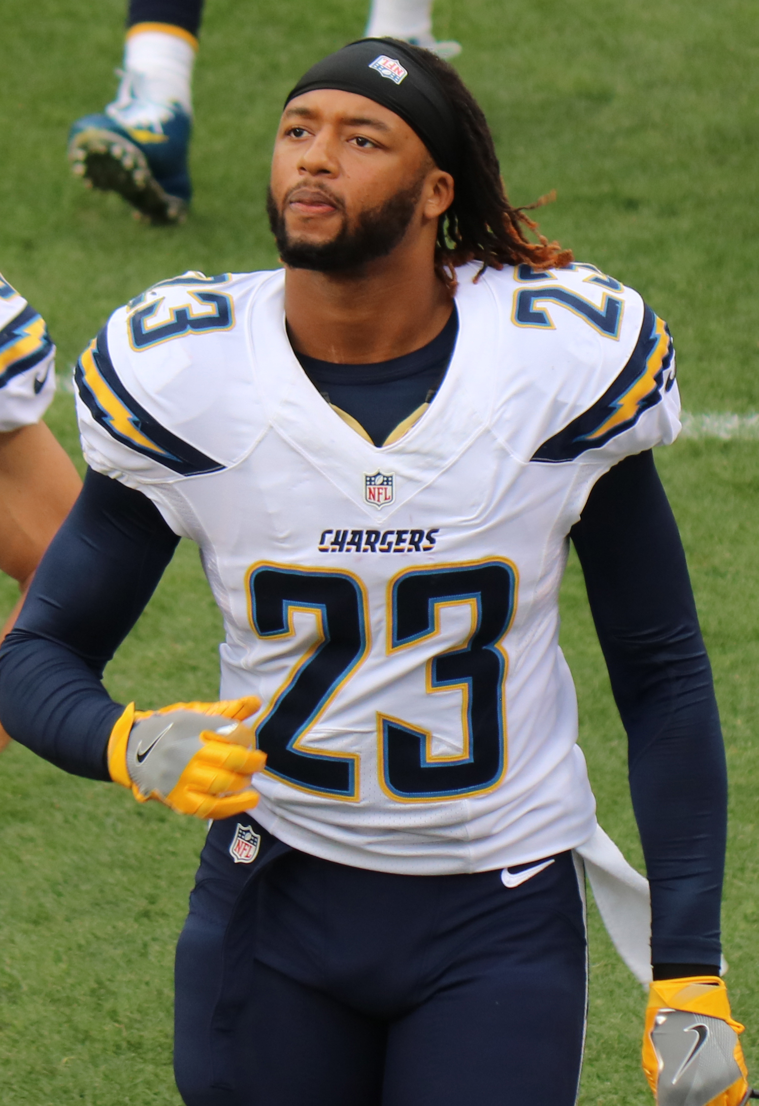 Dexter McCoil, a player on the National Football League.